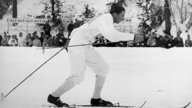 Swedish cross-country skier Nils "Mora-Nisse" Karlsson on his way to victory in the 50 km race at the 1948 Winter Olympics in St. Moritz, Switzerland.